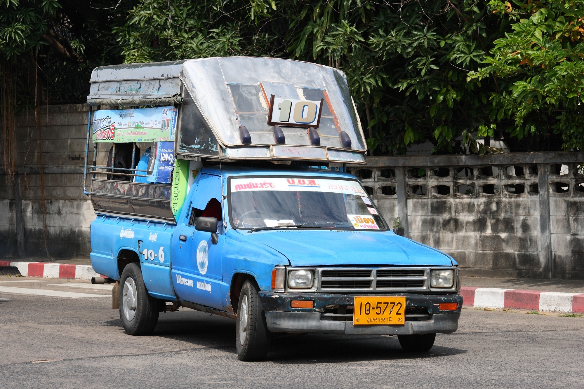 Songthaew in Ubon Ratchathani, Thailand (Toyota Hilux)